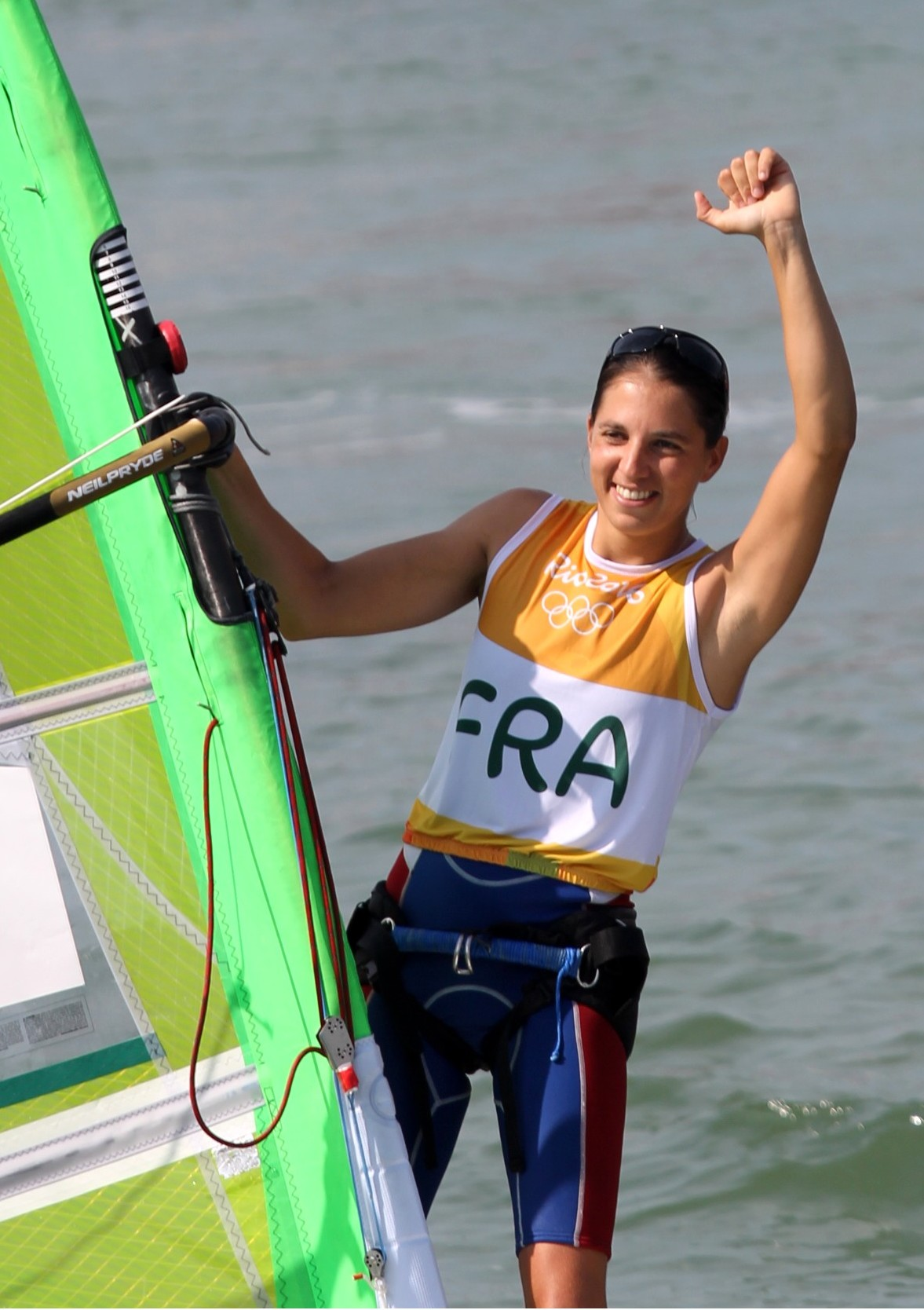 Charline Picon Médaille d'OR aux Jeux Olympiques de Rio à La Rochelle le 27 août 2016- France